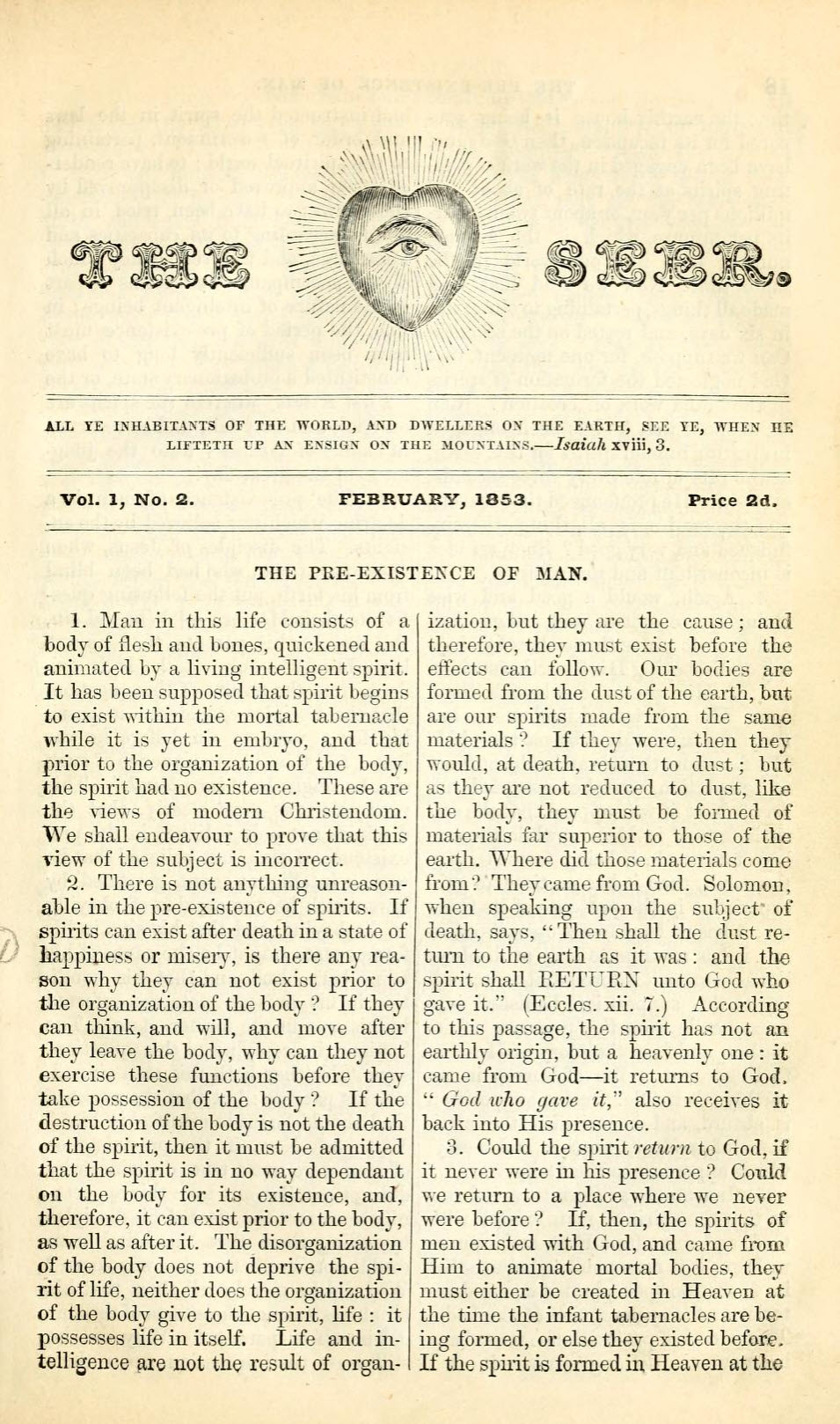 First page of the second issue of The Seer, published by S.W. Richards in behalf of Orson Pratt. Liverpool, England, February, 1853. Simultaneously published in Washington D.C., this is the Liverpool edition.